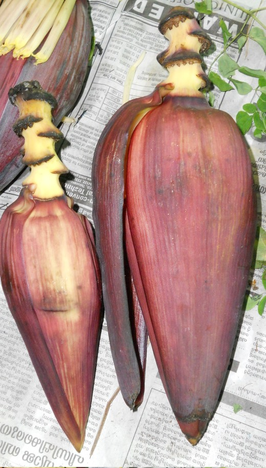 Banana flowers